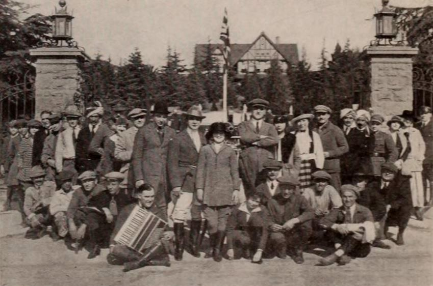 Still from the American film serial The Vanishing Dagger (1920) showing the cast and production crew, with Eddie Polo and Thelma Percy at center, on page 107 of the January 3, 1920 Exhibitors Herald.